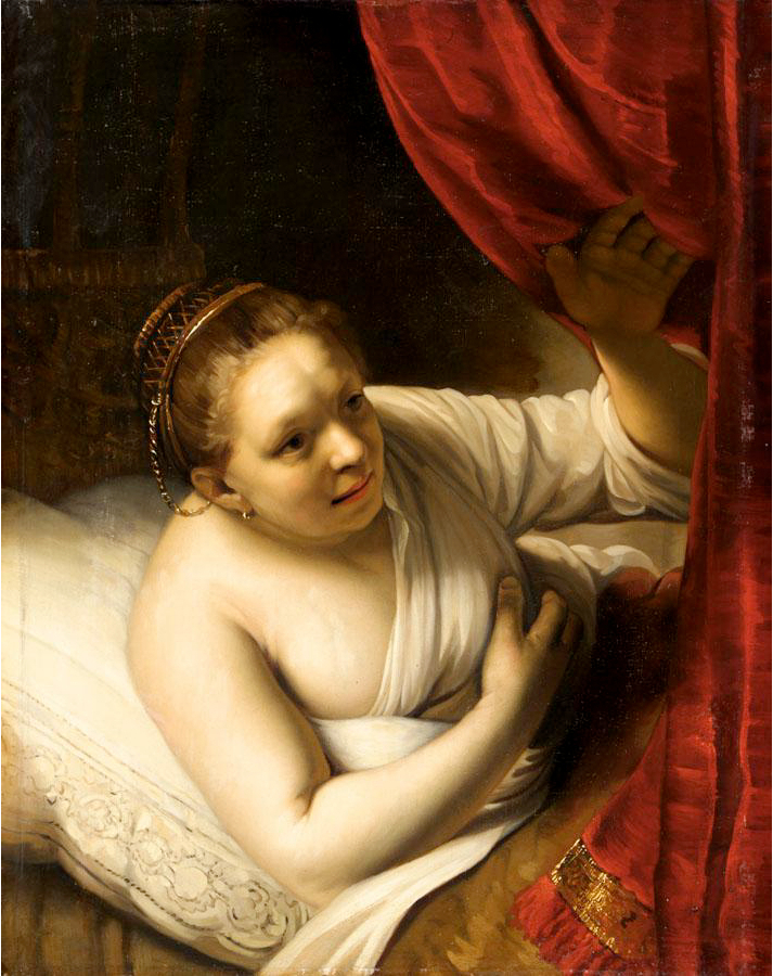 Interior with a lady, possibly Hendrikje Stoffels, lying in bed, copy after Rembrandt, oil on canvas, lined on board, 81.0 by 64.5 cm. Inscribed in a later hand on the reverse of the relining canvas: 31./Ferdinand Boll. (Overtort-Bagside 1954 P. Flemming.) Mentioned and reproduced by Abraham Bredius: Rembrandt, The complete paintings, London 1969, p. 98